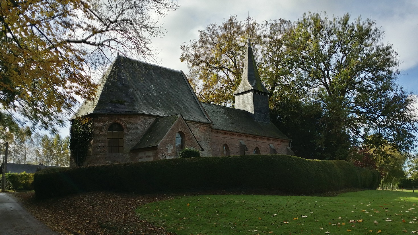 Église Saint-Denis à Coupigny